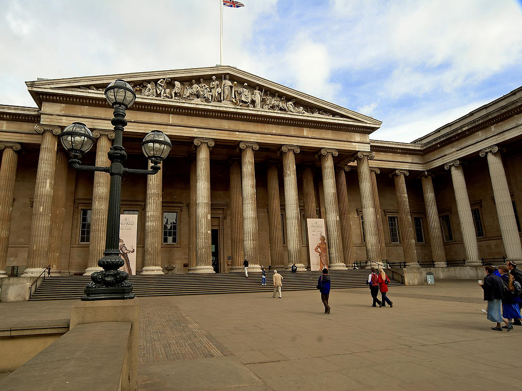 The Entrance to the British Museum in London, England